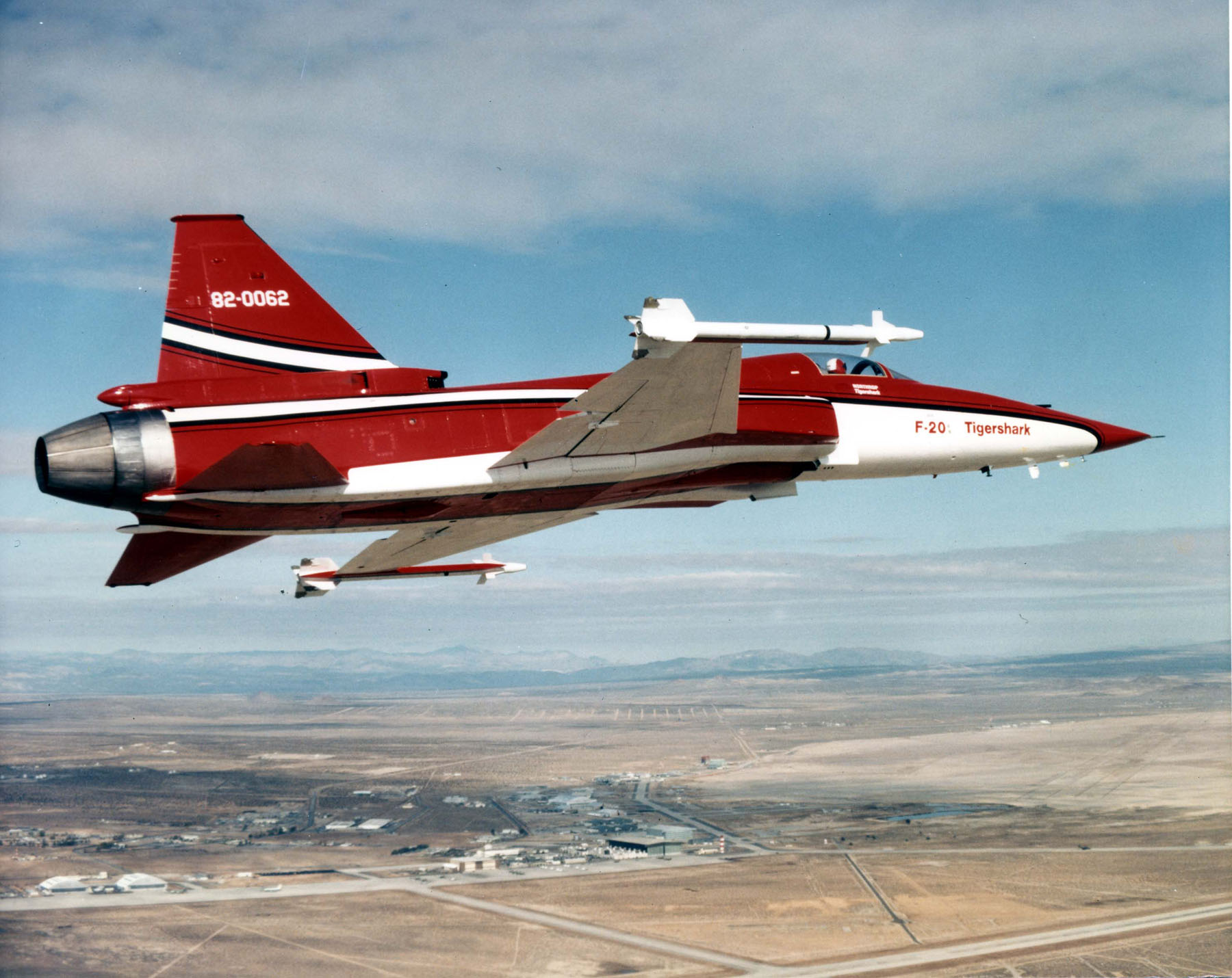 Northrop F-20 (S/N 82-0062) in flight. (U.S. Air Force photo)